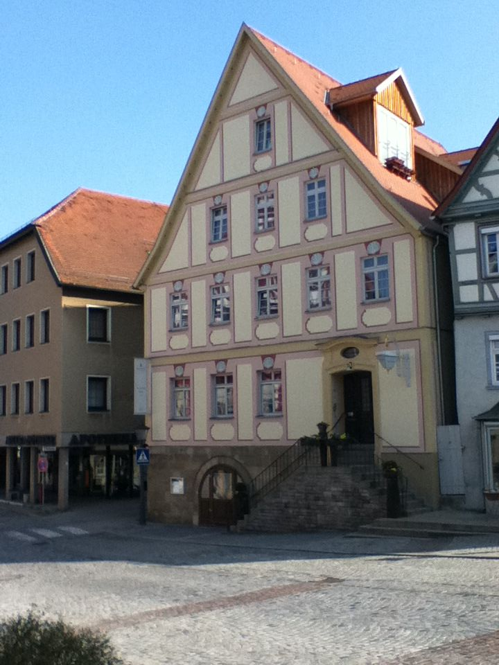 You can see a house from Backnang on this picture.